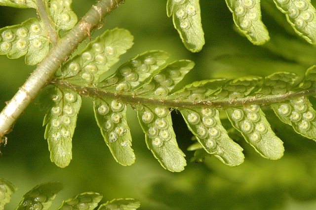 Picture taken in Commanster, Belgian High Ardennes. Species: Dryopteris filix-mas